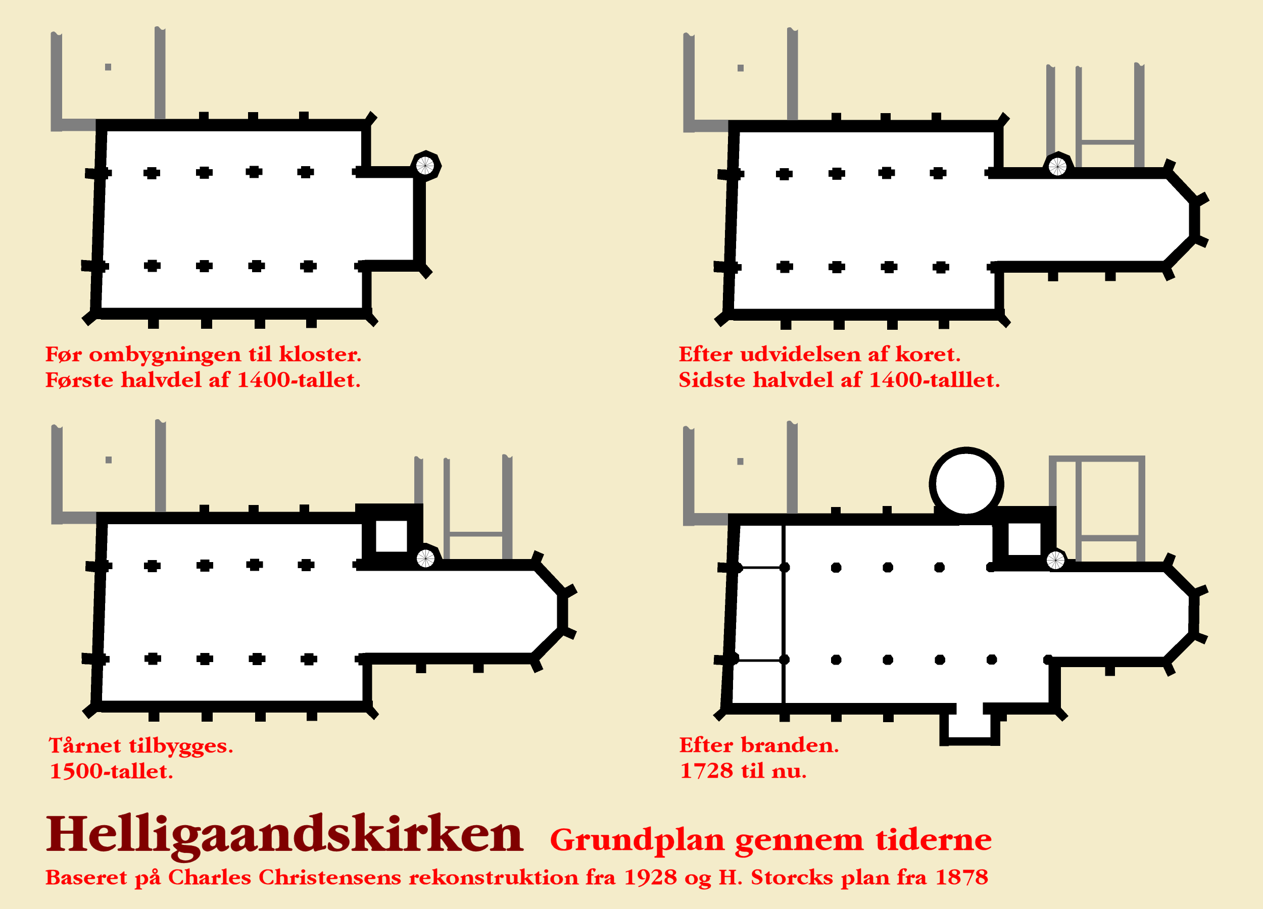 Helligåndskirken, Copenhagen, Denmark. Plans of the church through the times.